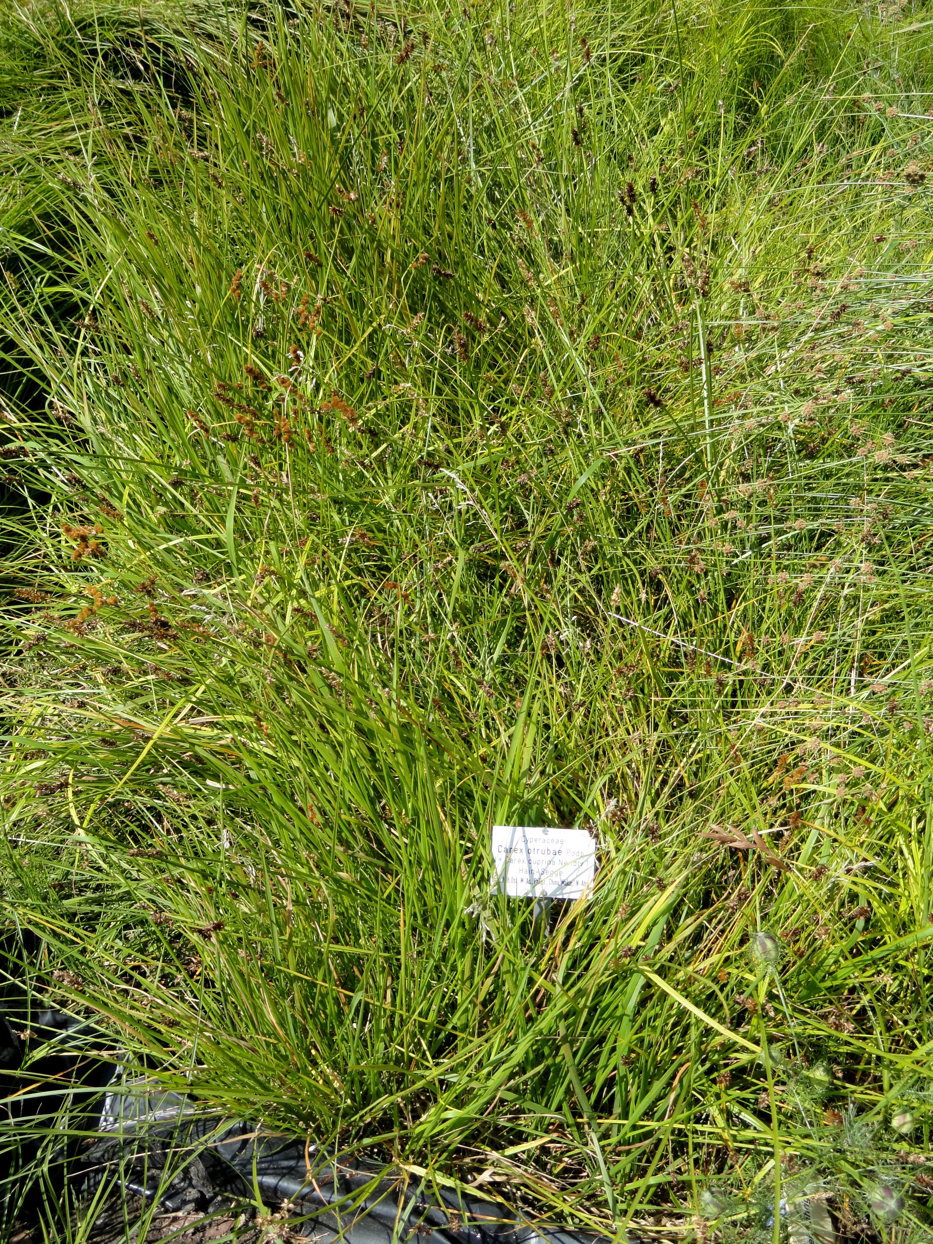 Botanical specimen in the Botanischer Garten, Frankfurt am Main, located at Siesmayerstraße 72, Frankfurt am Main, Germany.